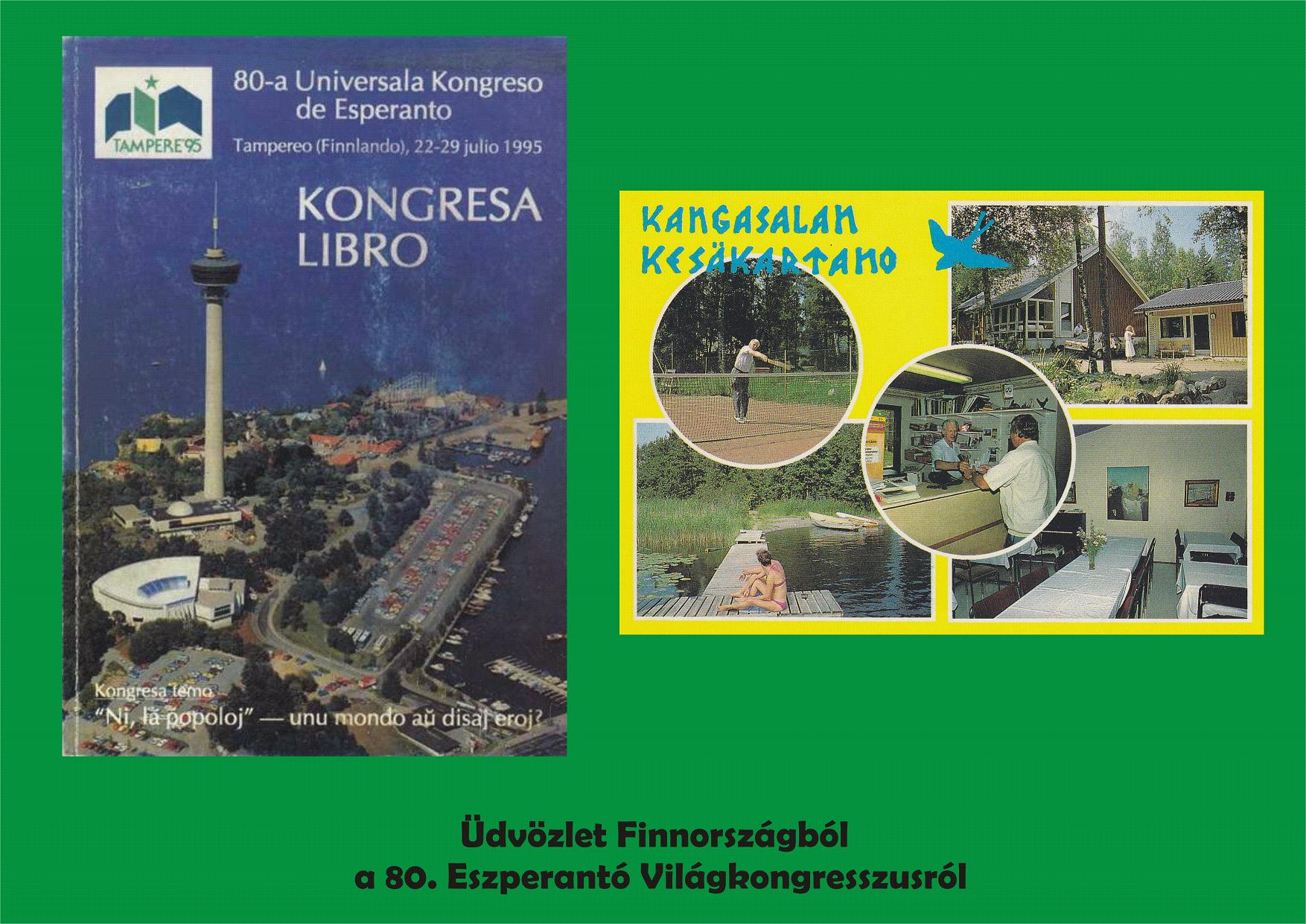 80th International Esperanto Congress in Tampere in 1995